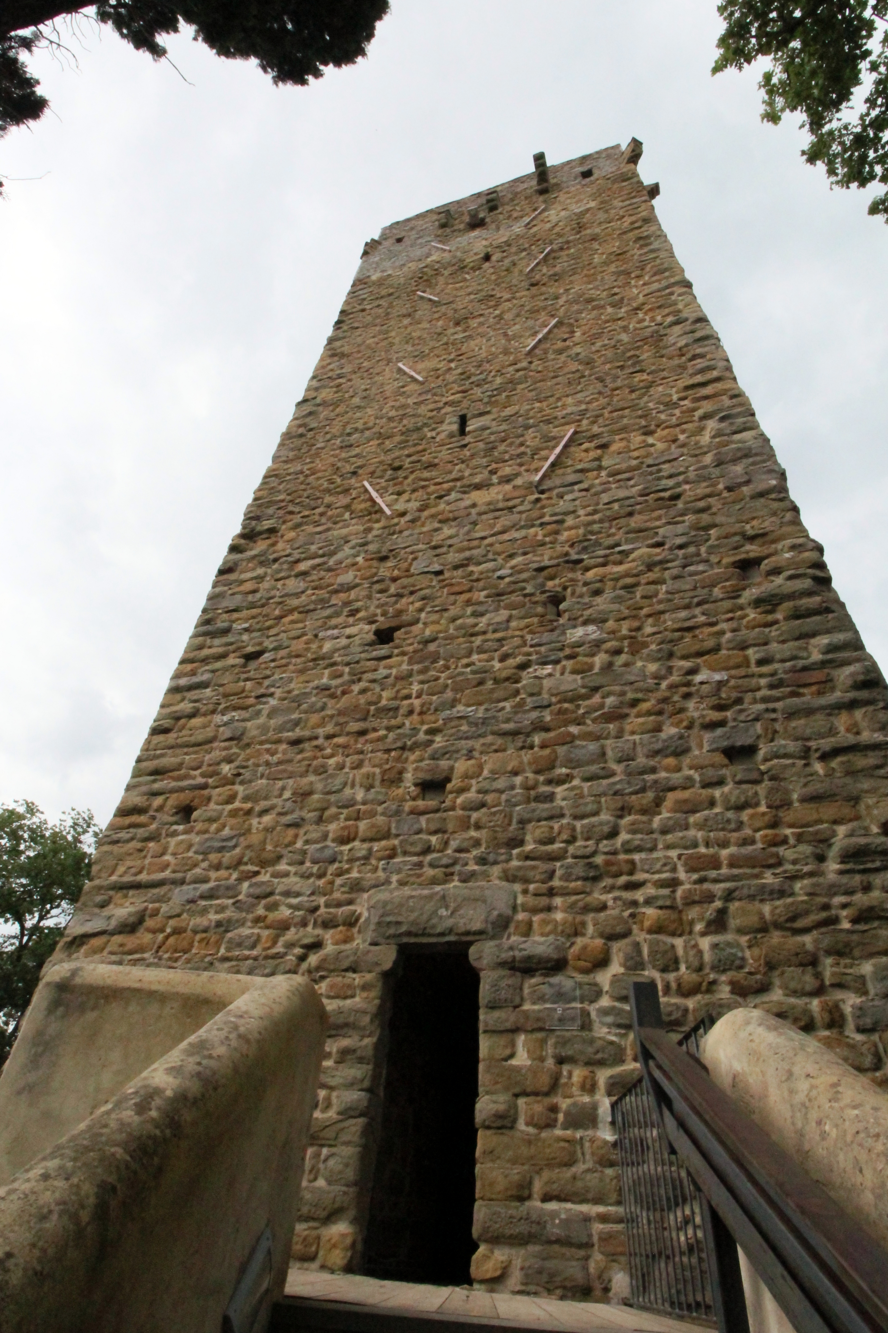 Tower Torre di Galatrona, part of the old fortifications of Galatrona, Municipality of Bucine, Province of Arezzo, Tuscany, Italy